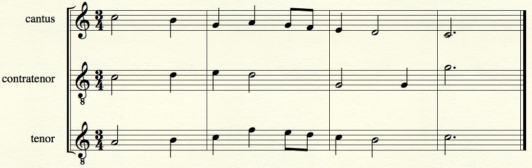 The last four measures of Dufay's rondeau "J'atendray tant qu'il vous playra", an example of burgundian cadence.